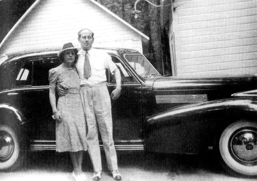 Eva & Åke Bonnier, with their Cadillac